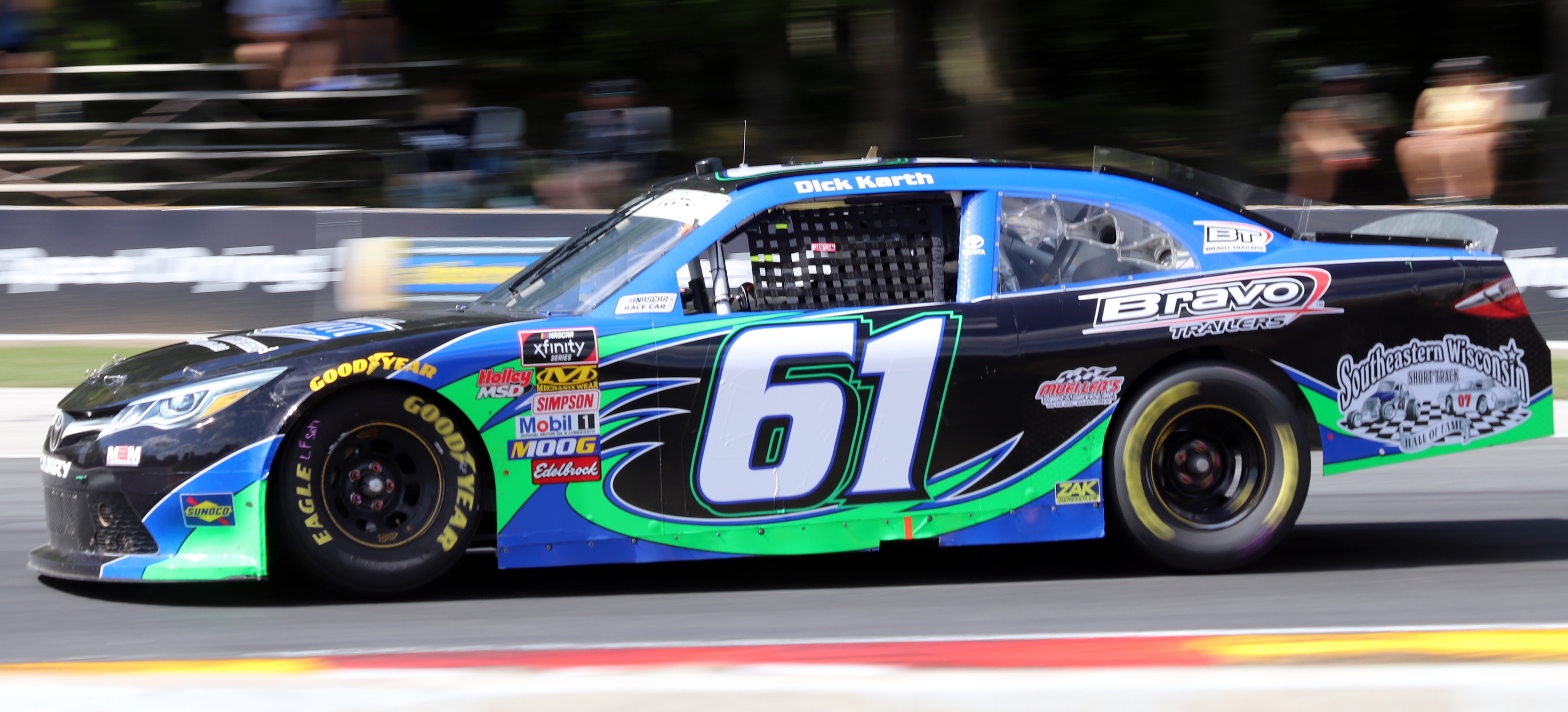 The #61 Toyota Camry of Dick Karth at the NASCAR CTECH 180.